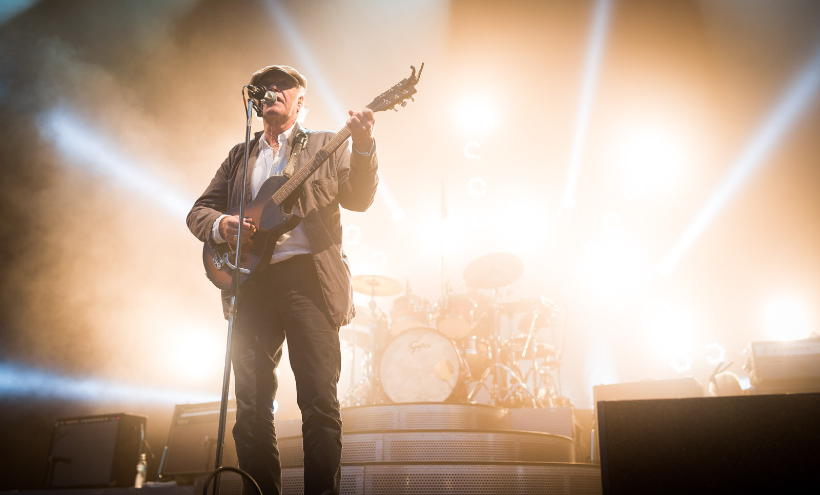 Kim Larsen live at Odderøya Live 2013